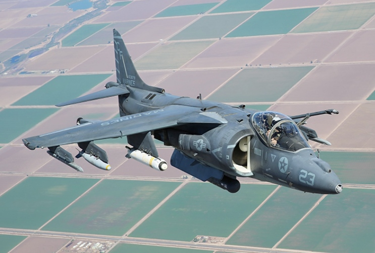 An AV-8B Harrier with Marine Attack Squadron 211, 3rd Marine Aircraft Wing, refuels during fixed-wing aerial refueling training over eastern California, Aug. 27. This training teaches pilots and air crew to refuel an aircraft without landing using a KC-130J Super Hercules, thus extending the operational capability of the aircraft during combat missions.